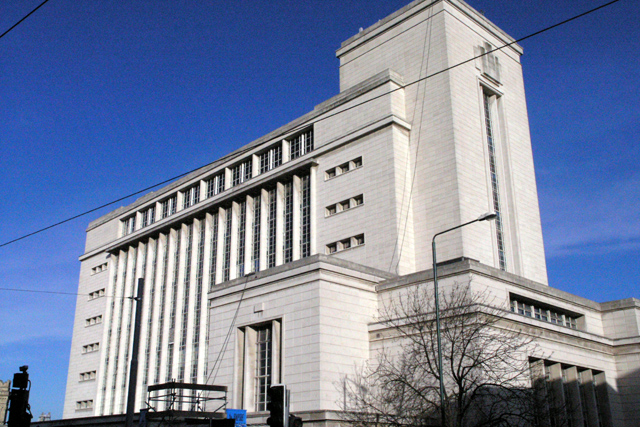 The Newton Building, Nottingham (4) Built between 1956 and 58 this is one of my favourite Nottingham buildings. The architecture I once saw described as "neo-fascist" which suits it perfectly. It is one of the principal buildings of Nottingham Trent University. The dates of building come from an excellent site of photographs of Nottingham found here